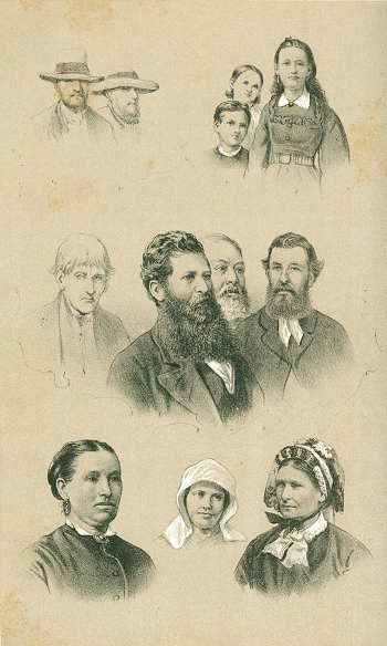 Types of Transvalers, lithography by Gerardus Johannes Bos From De worstelstrijd der Transvalers aan het Volk van Nederland verhaald by Frans Lion Cachet (1882)